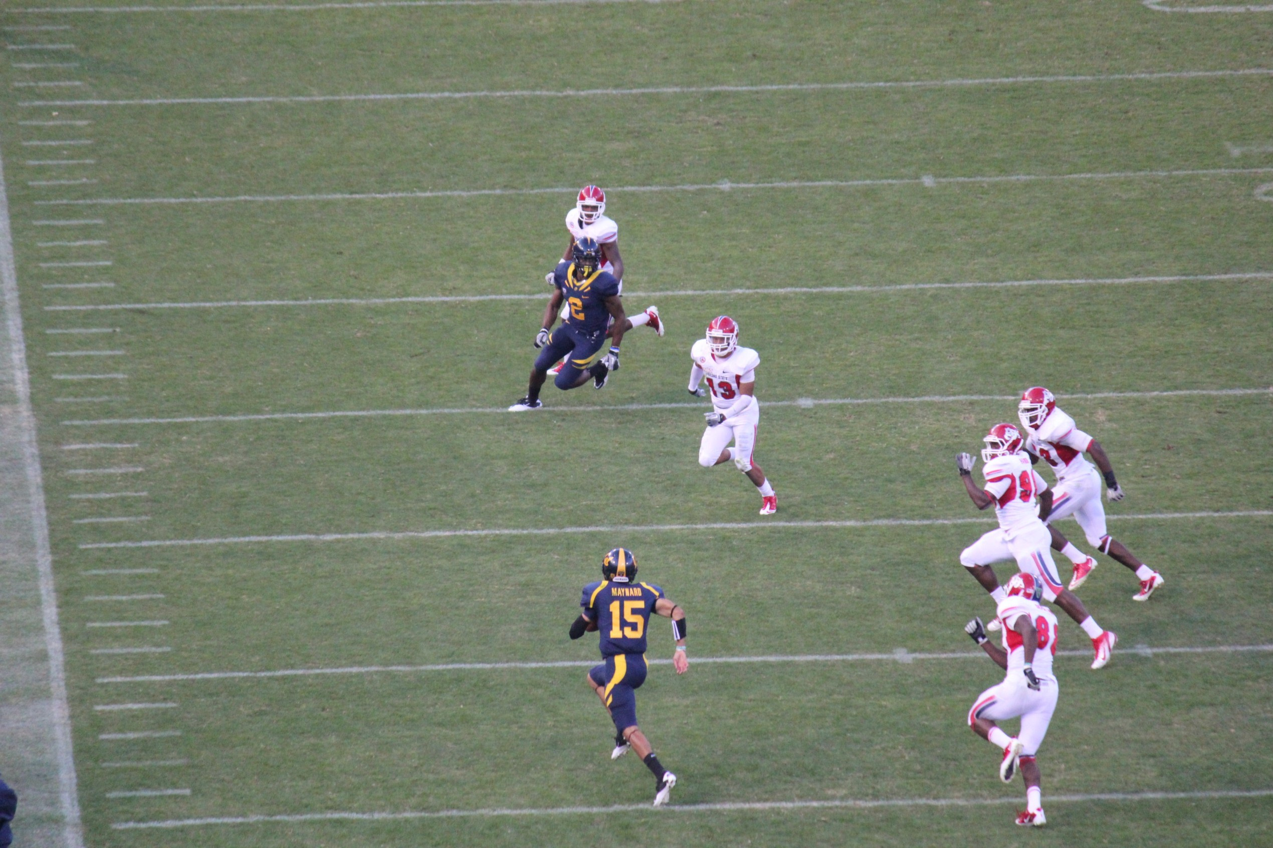 Cal quarterback Zach Maynard scrambling for 19 yards against Fresno State at Candlestick Park. The Bears won 36-21.